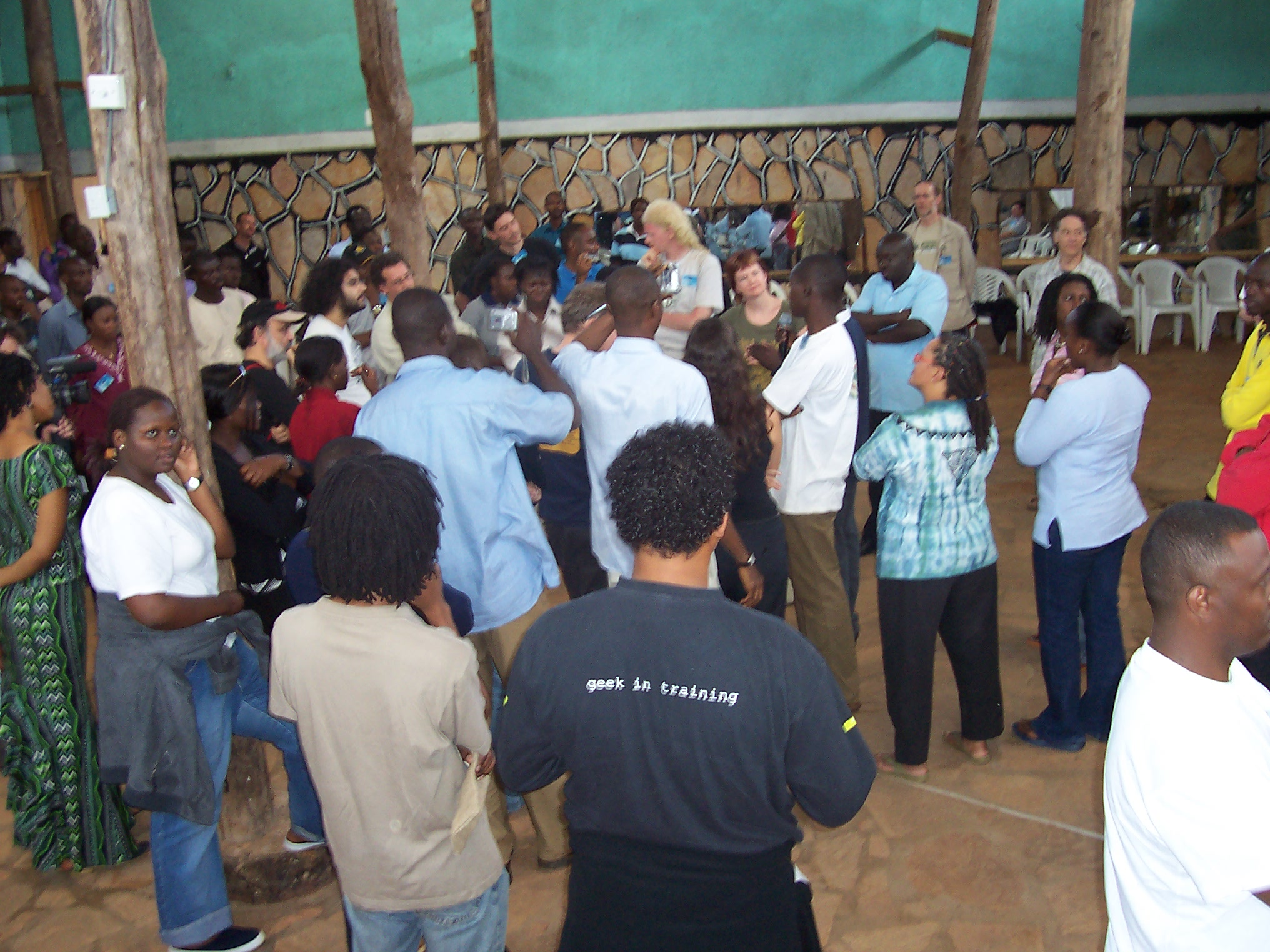 At the Africa Source 2 camp, taking a poll of diverse opinions. Photo Frederick "FN" Noronha. Photo GFDL'ed by the creator.